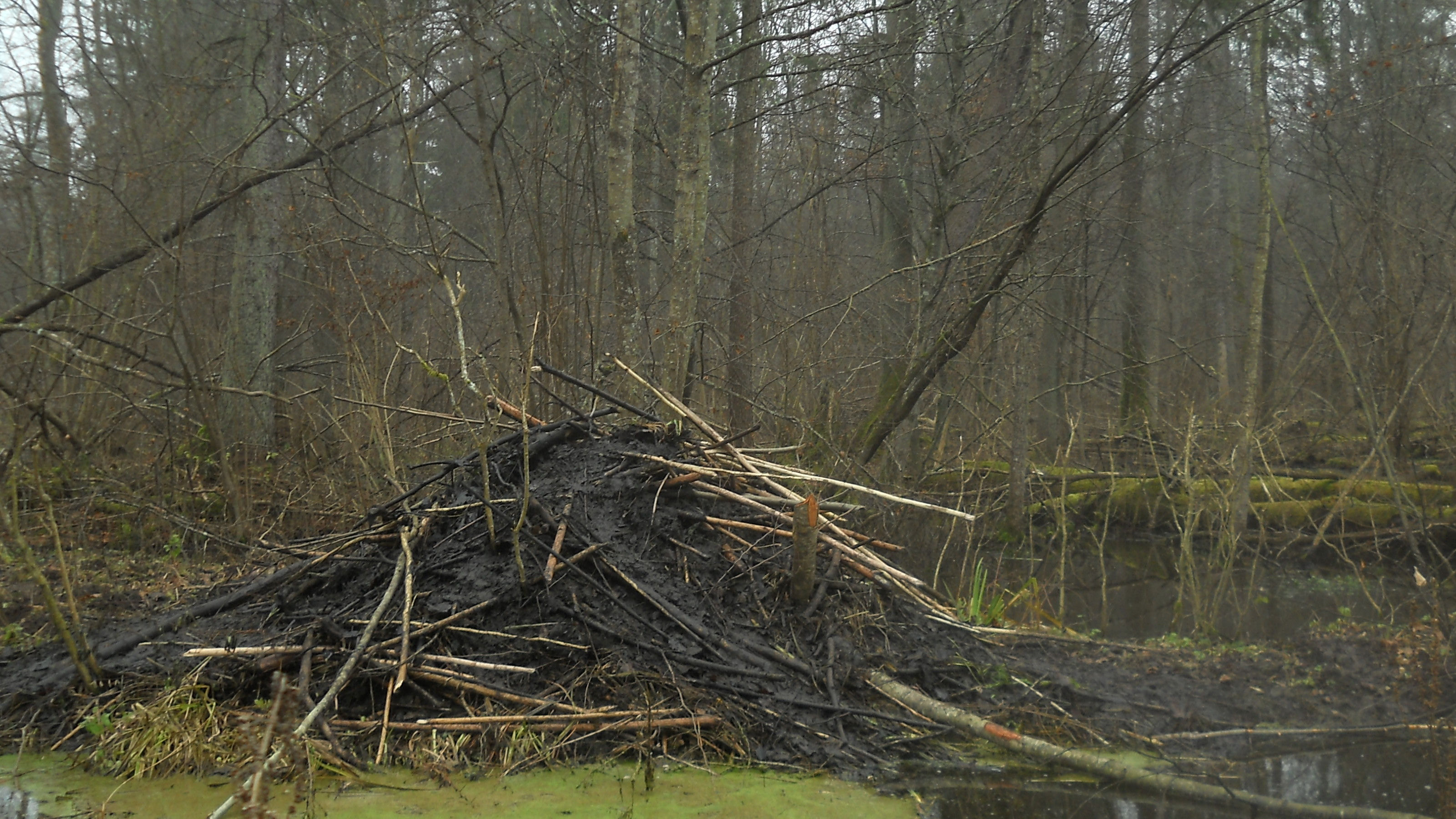 Beaver lodge in the Bialowieza Forest.